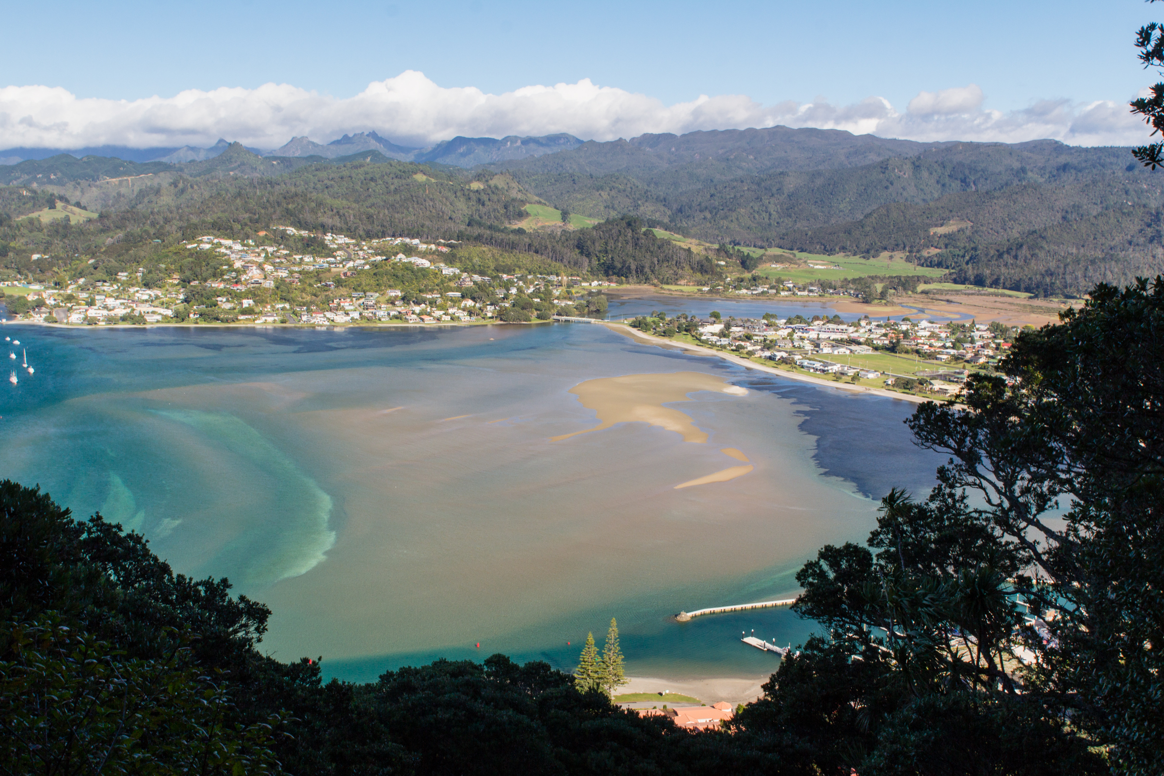 Tairua and harbour from Mount Paku, on the Coromandel Peninsula